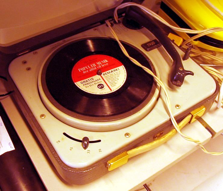 a record player with four revolution speeds